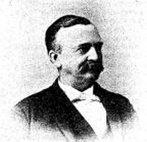 Charles A. Cogswell was an Oregon State Senator from Lakeview, Oregon; he represented Crook, Klamath and Lake counties from 1889-1896